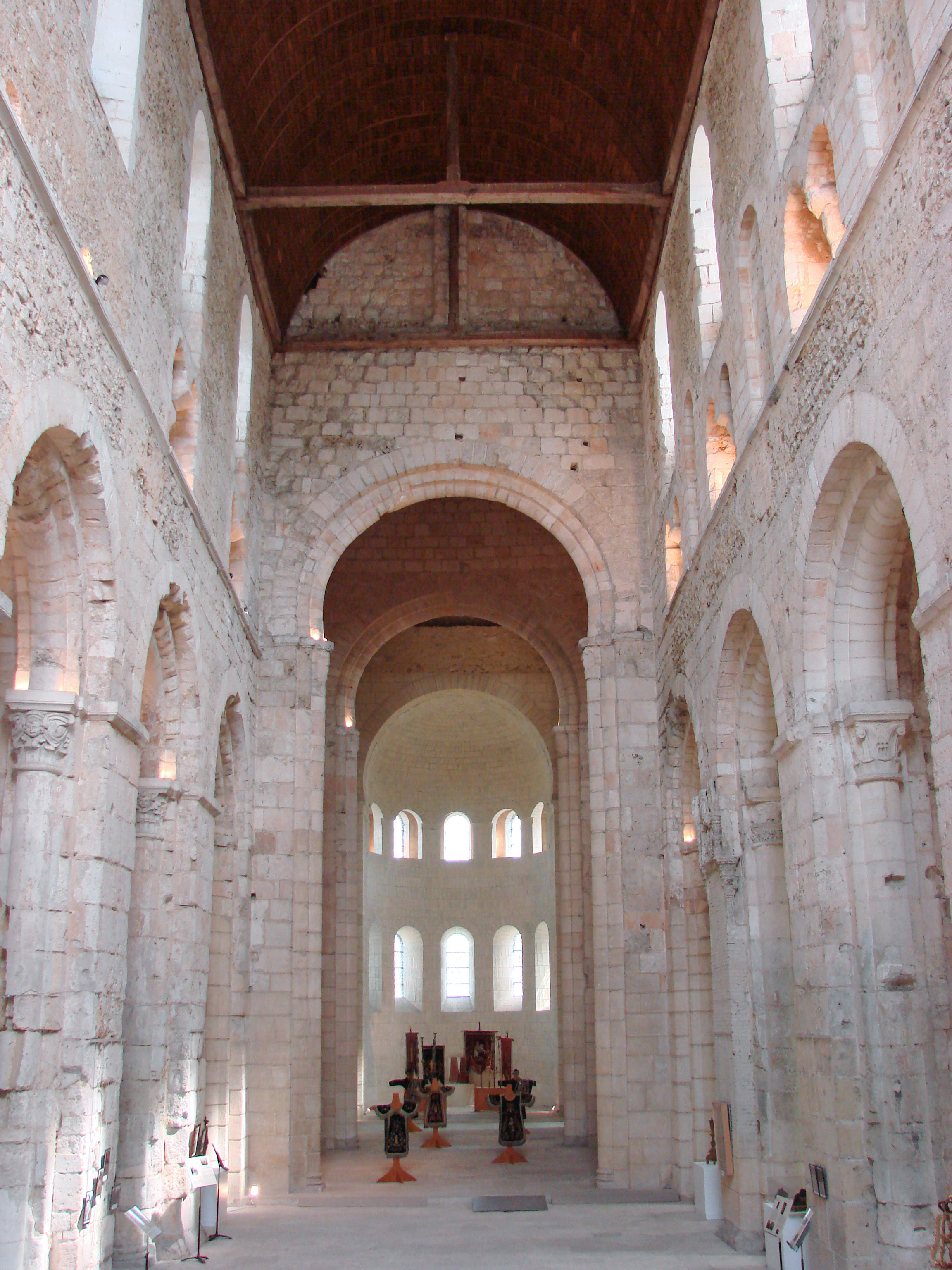 Nave of the Notre-Dame abbey in Bernay (Eure)